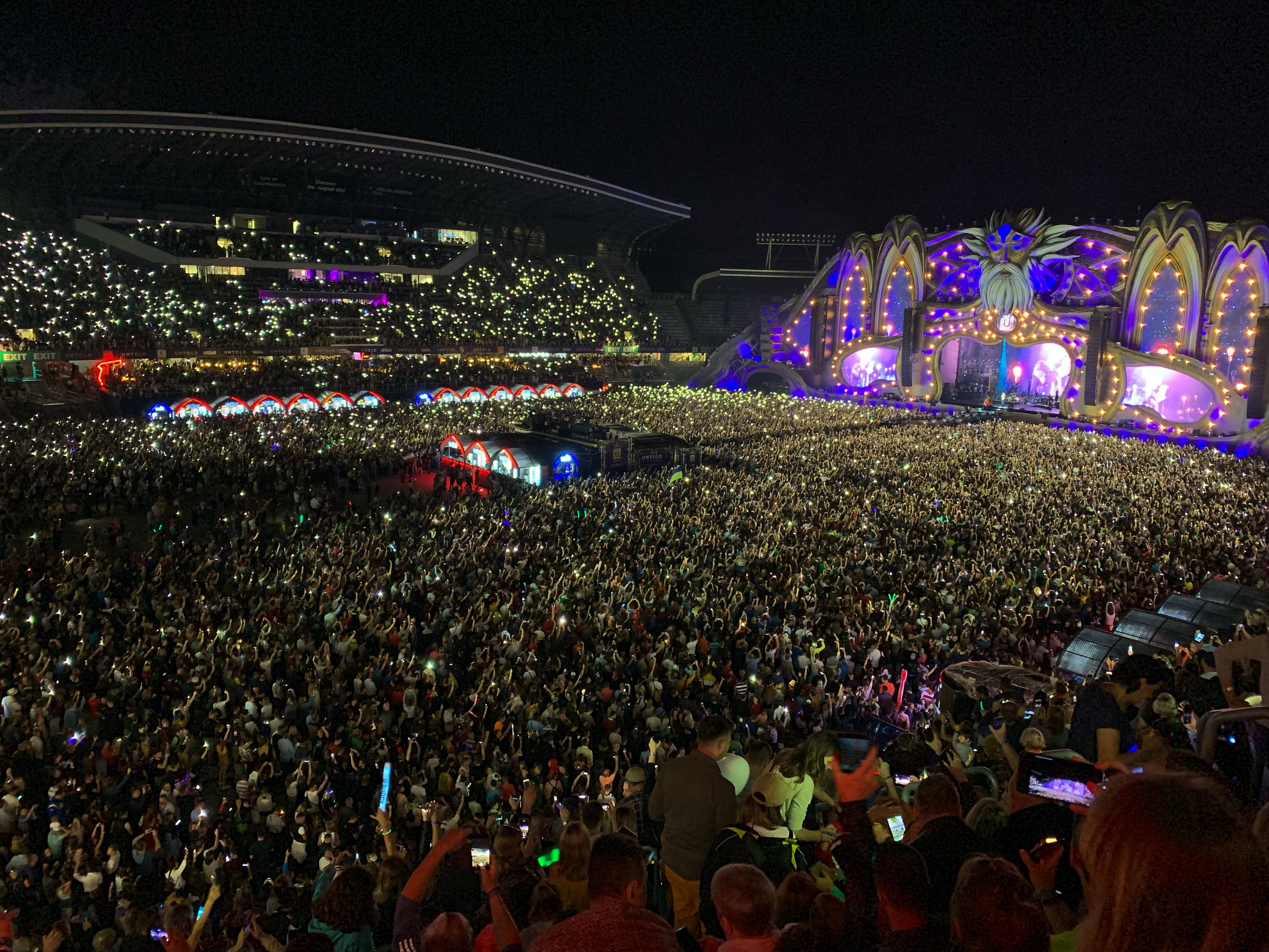 The main stage during the night at UNTOLD 2019.